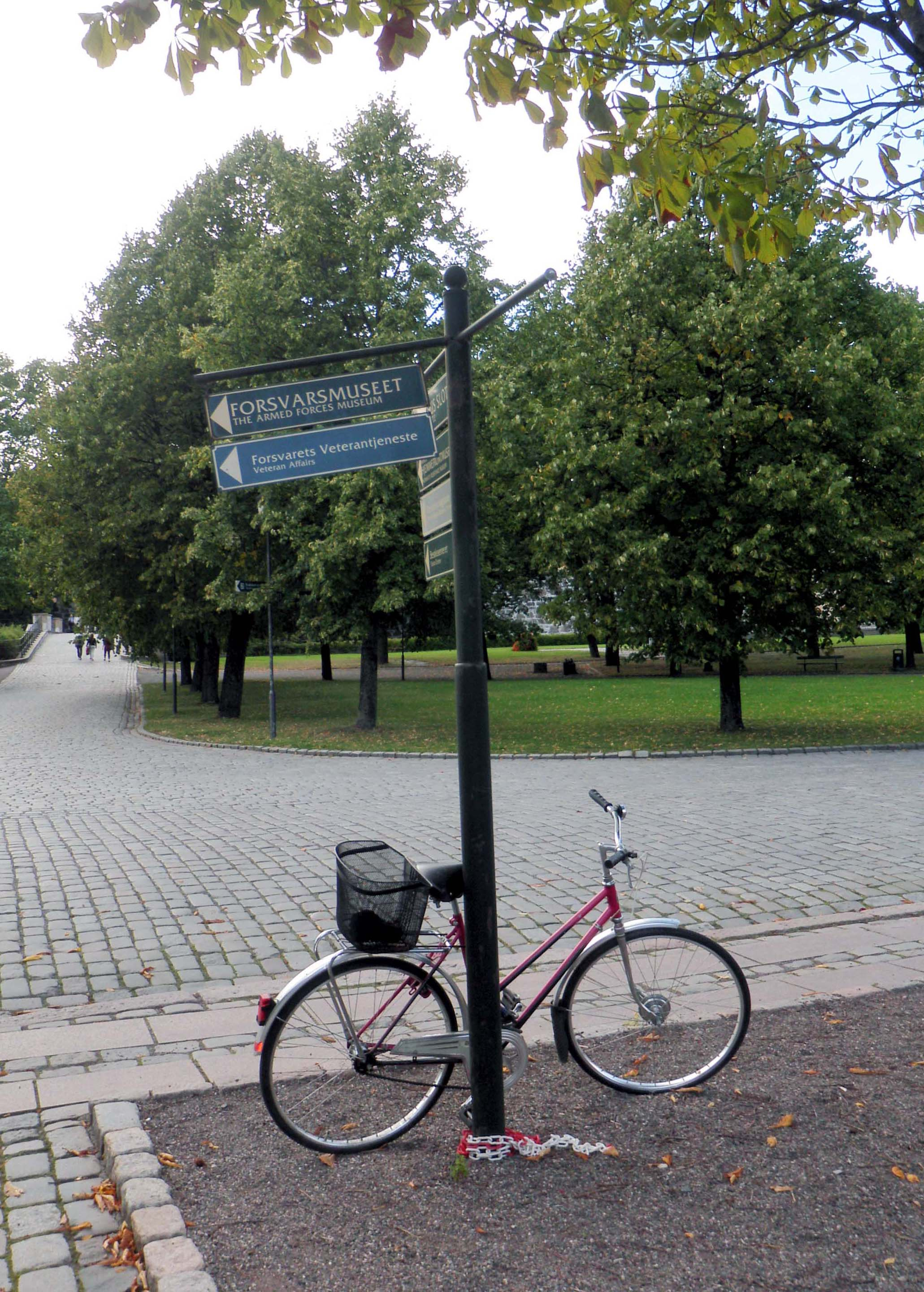 Directional signs at Akershus Fortress, in Oslo, Norway. The signs in view are pointing to the Armed Forces Museum and the Norwegian Armed Forces' Veteran Affairs.